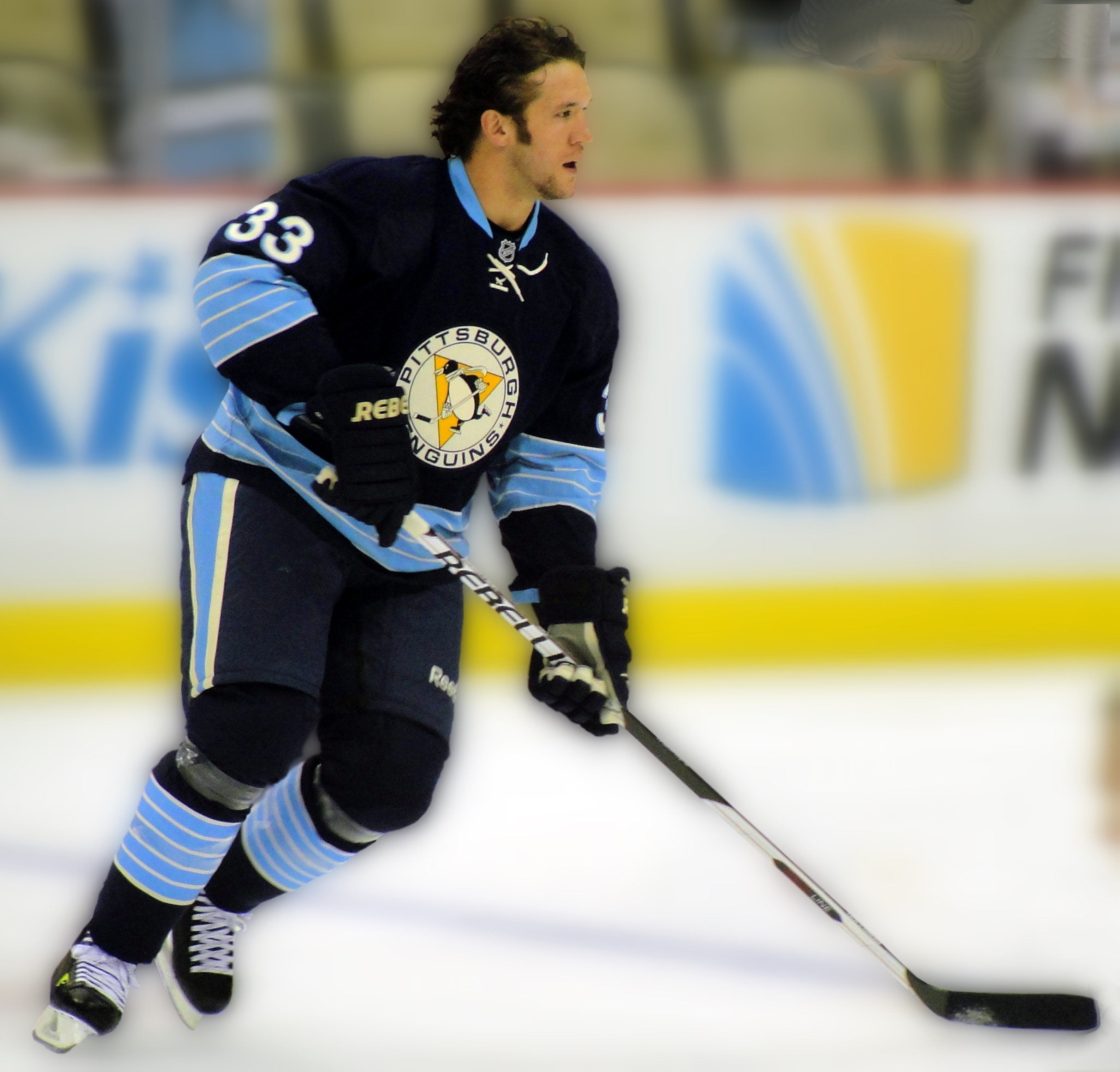 Steve MacIntyre of the Pittsburgh Penguins warms up before a October 15, 2011 match-up with the Buffalo Sabres at Consol Energy Center in Pittsburgh, PA.